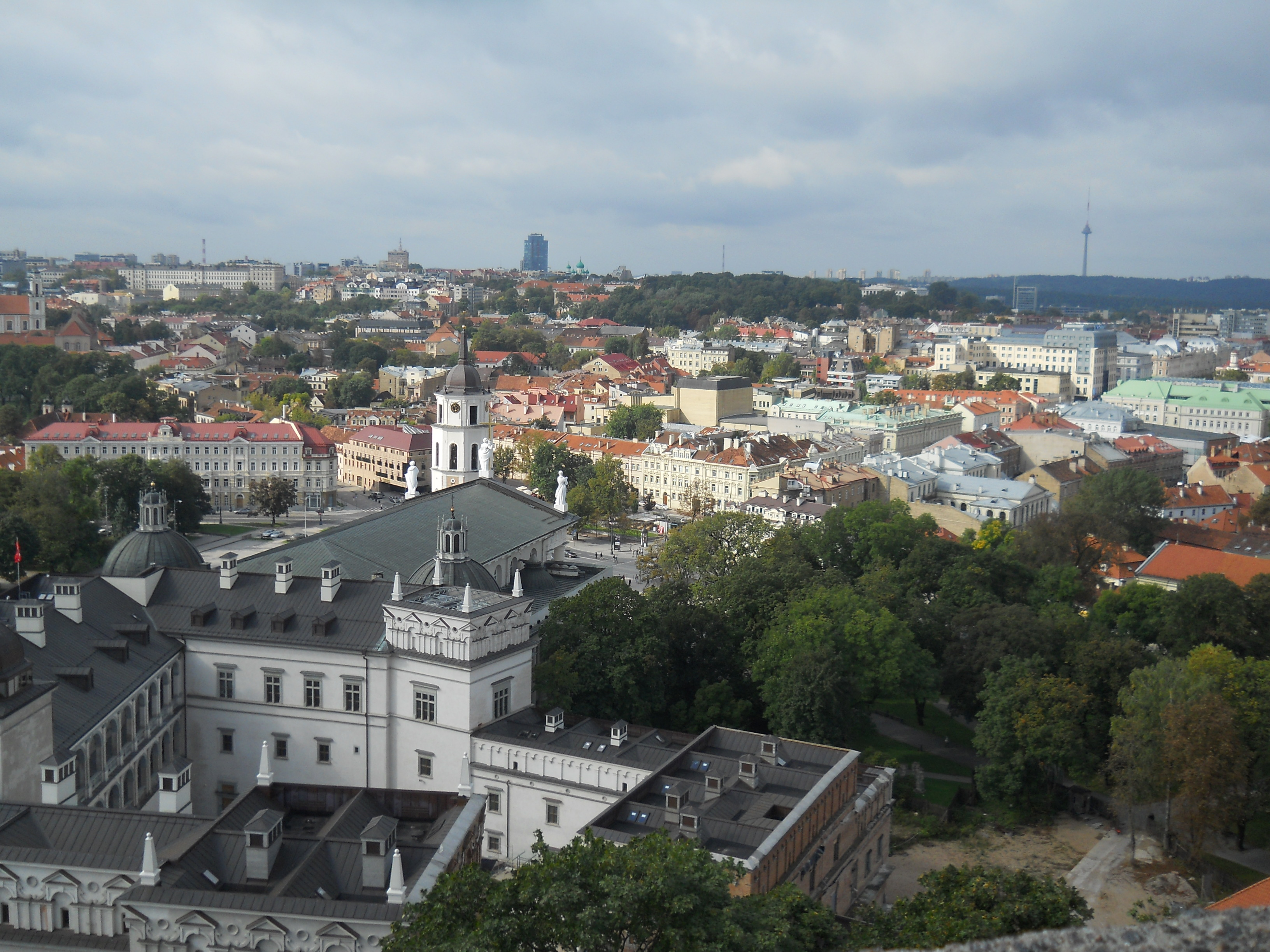 Vilnius Lithuania 110